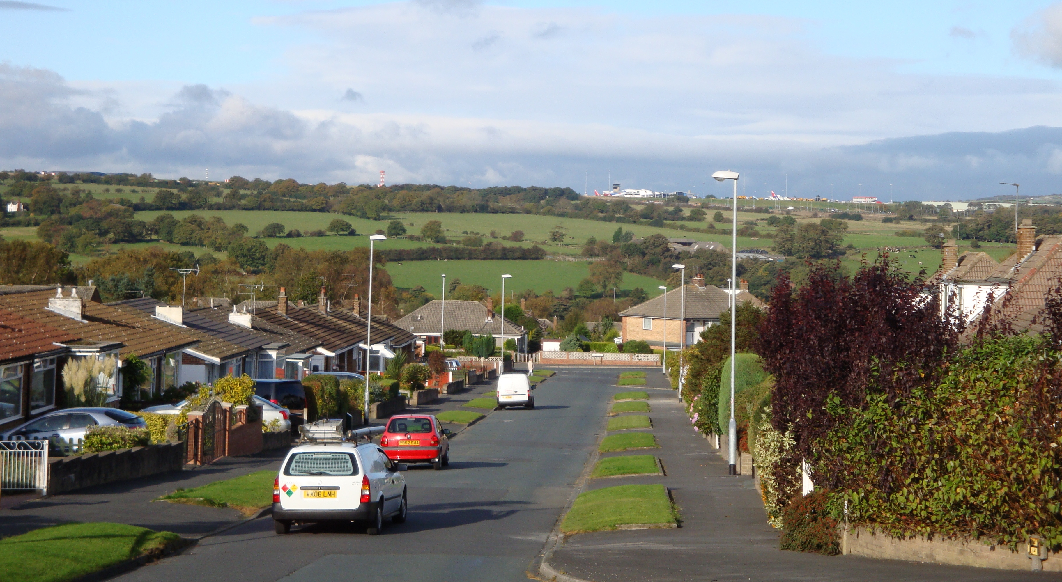 Wrenbury Crescent, Cookridge, England, looking towards Leeds Airport, visible in the distance